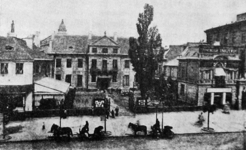 Tarnowski Palace photo from the street Krakowskie Przedmieście (Photo by Jadwiga Golcz was published in Wędrowiec, 1898)